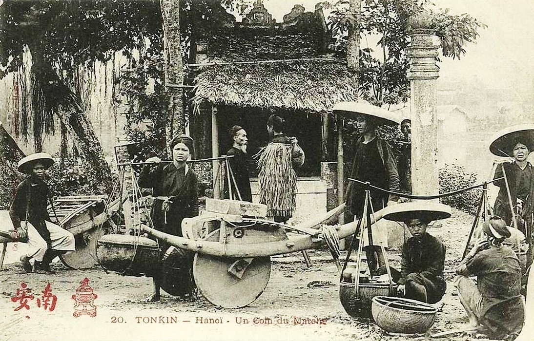 Hanoi, Un coin du Marché